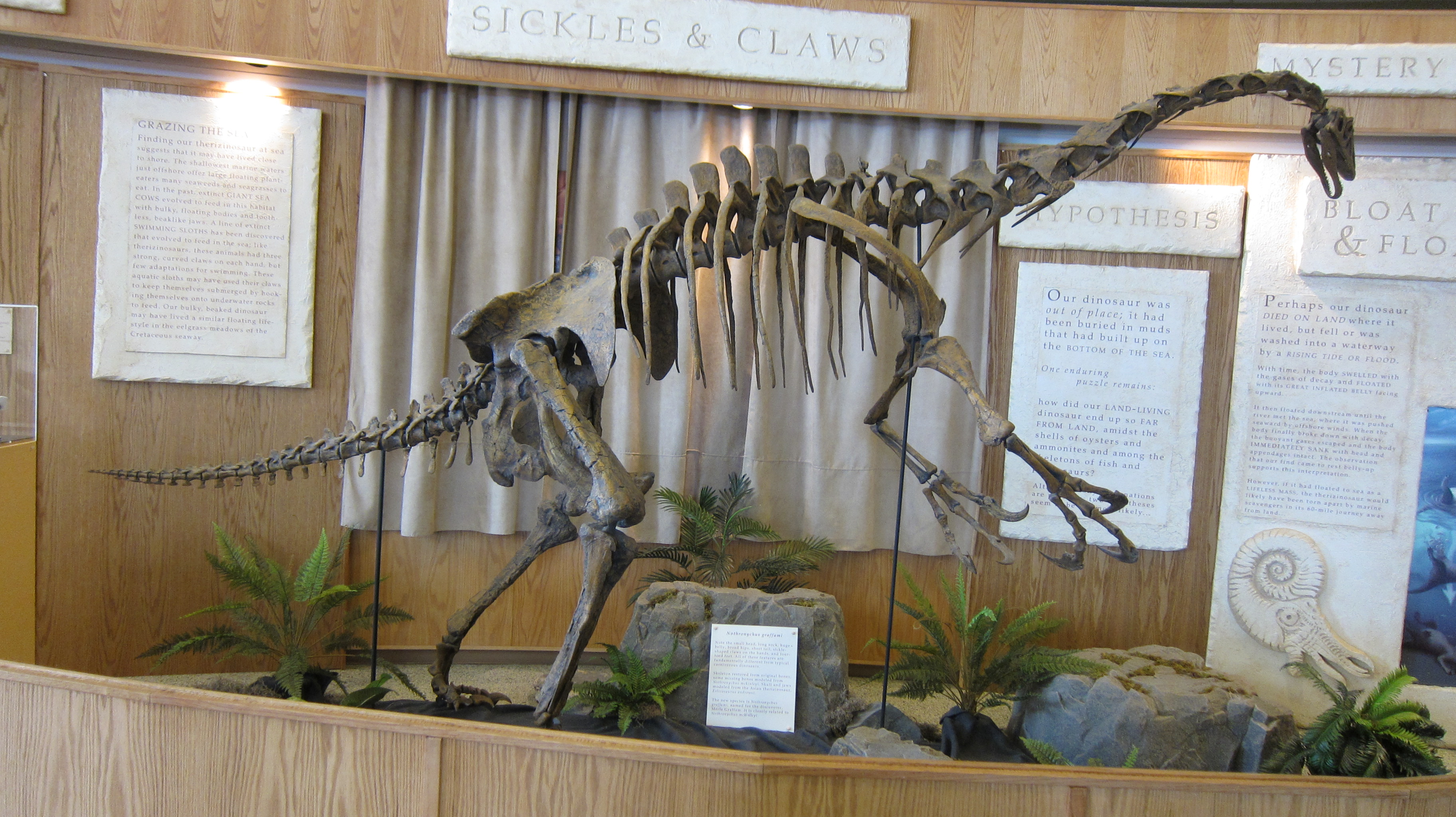 Nothronychus graffami, Glen Canyon Dam Visitors' Center